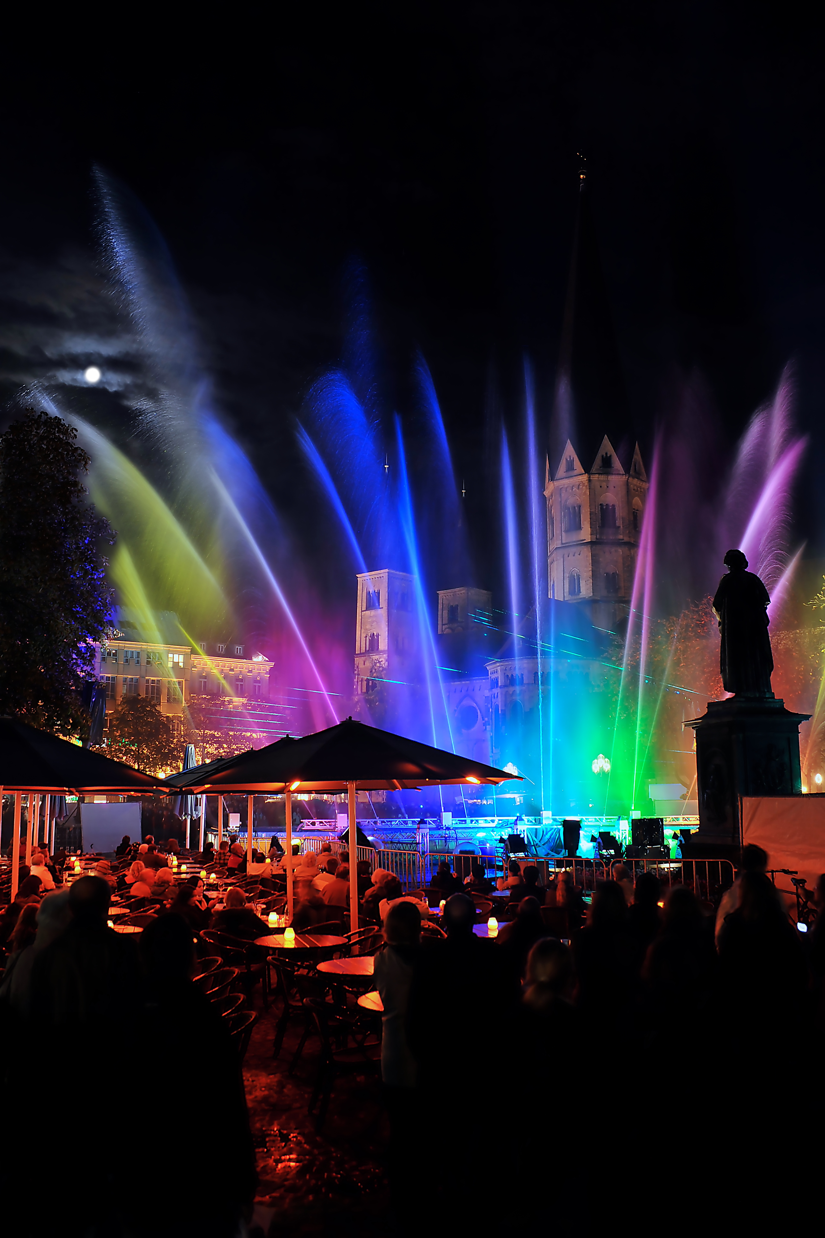 Since 2004, a water, light and laser show entitled "Klangwelle" is performed each year for a week on the Münsterplatz in Bonn, Germany. The show is accompanied by classical, carnival and rock+pop music and sponsored by local companies enabling free admission to the presentation. The show originally directed by Siegwulf Turek is now in the hands of Roland Nenzel und Daniel Ploil.